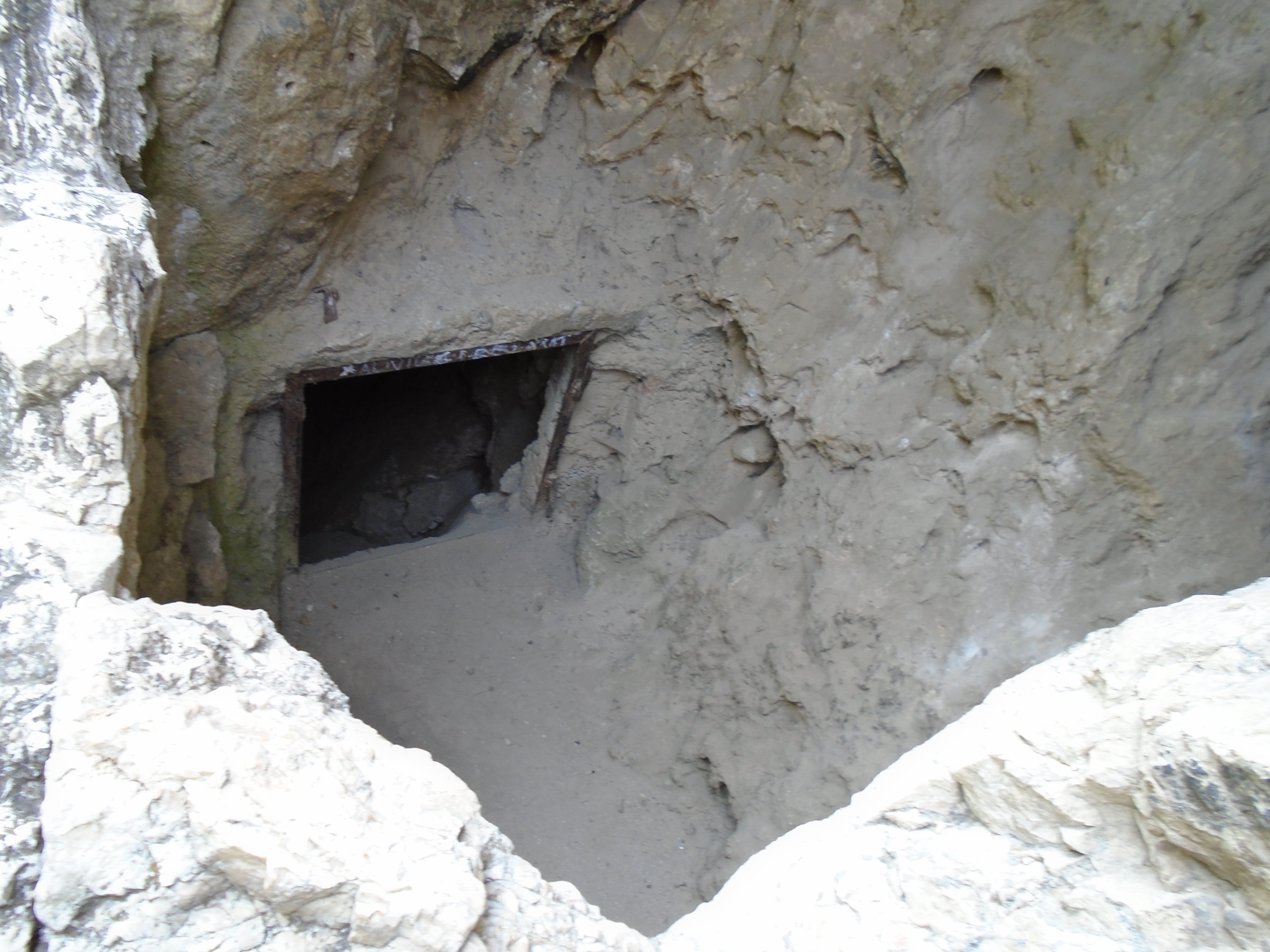 Entrance of Róka-hegyi Kristály Cave.